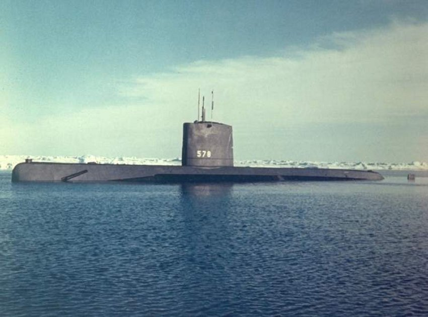 USS Skate (SSN-578) in arctic circle. per danfs.